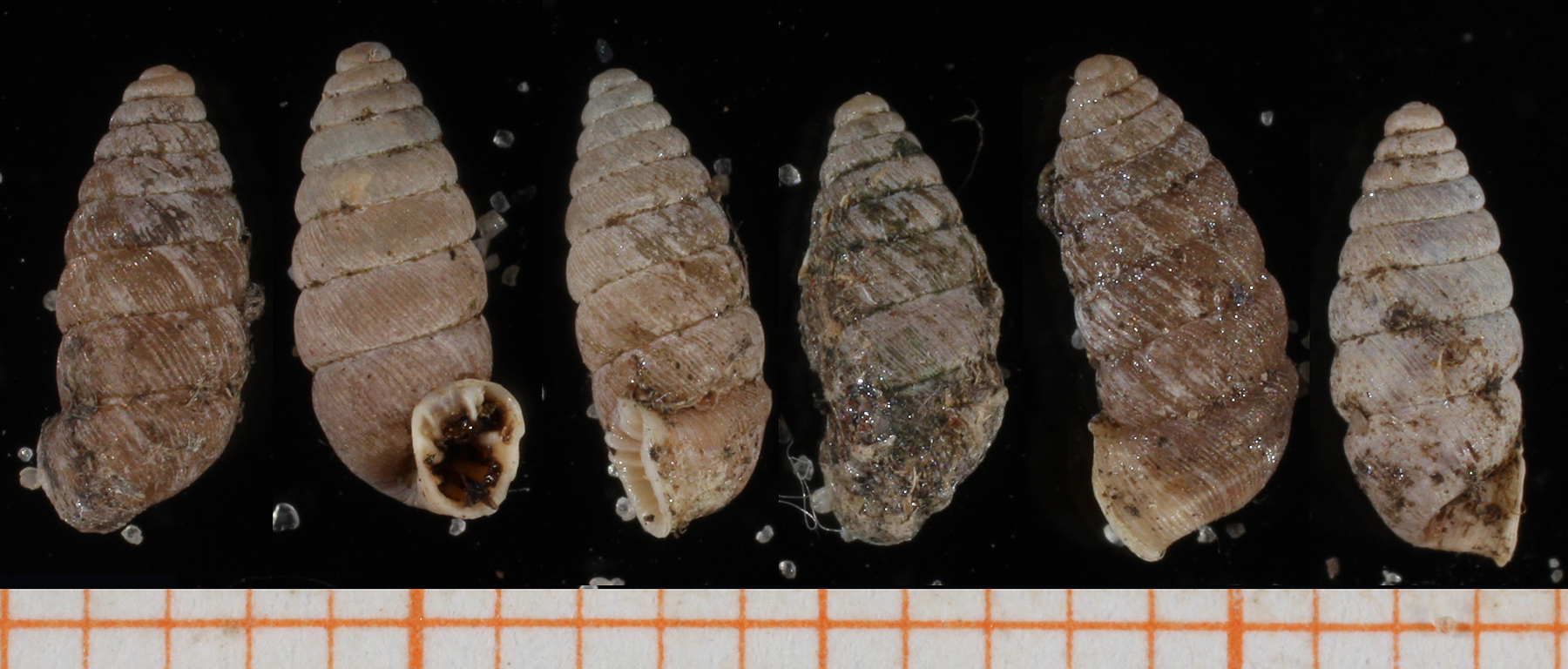 Abida bigerrensis (Moquin-Tandon, 1856), Chondrinidae, Pulmonata, Gastropoda, Locality: France, Sarrance near Oloron